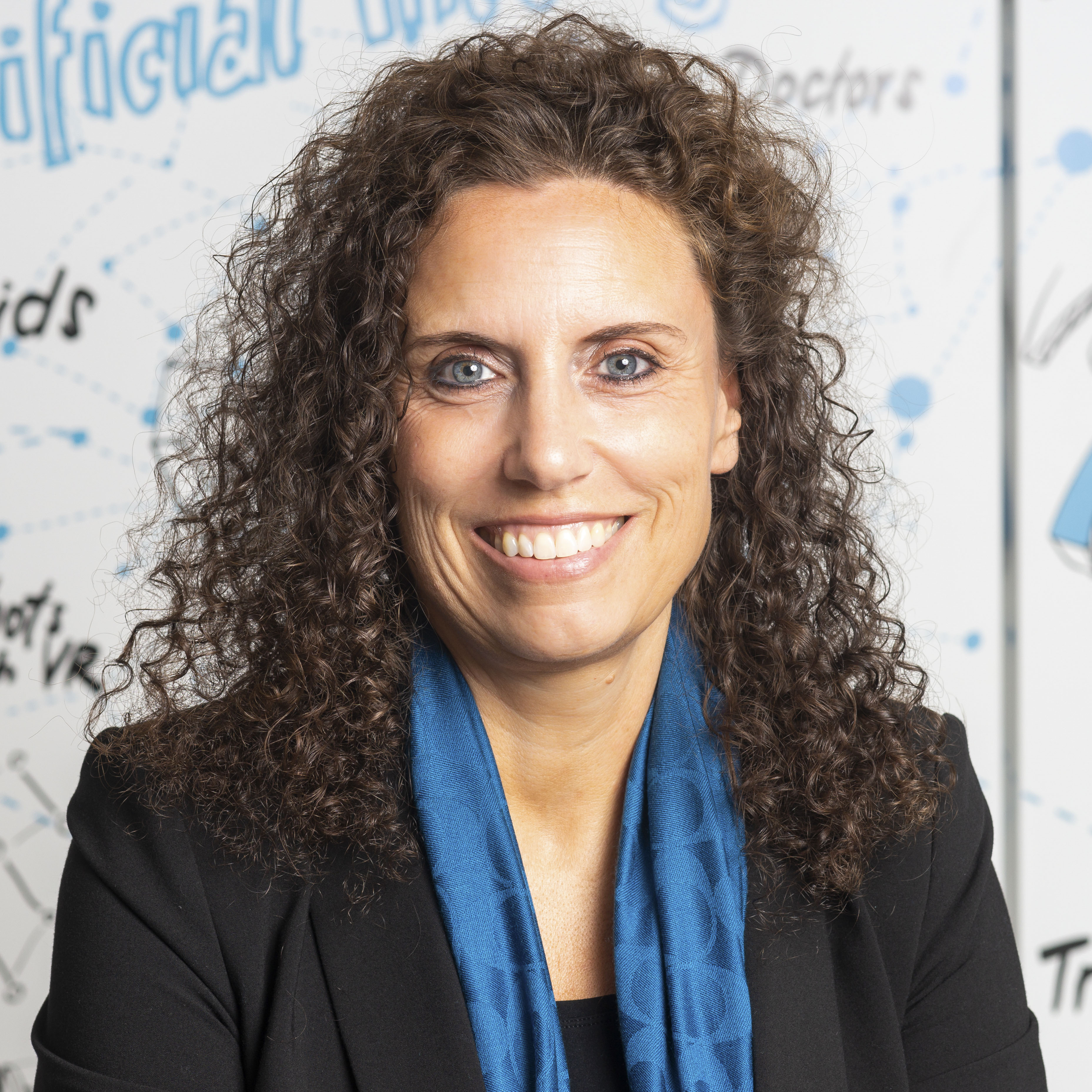 Prof. Dr. Sabine Remdisch (2018)